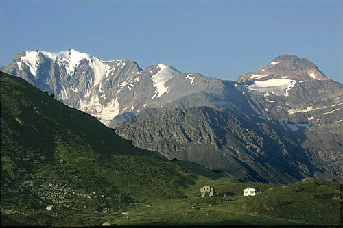 Fletschhorn seen from Simplon pass